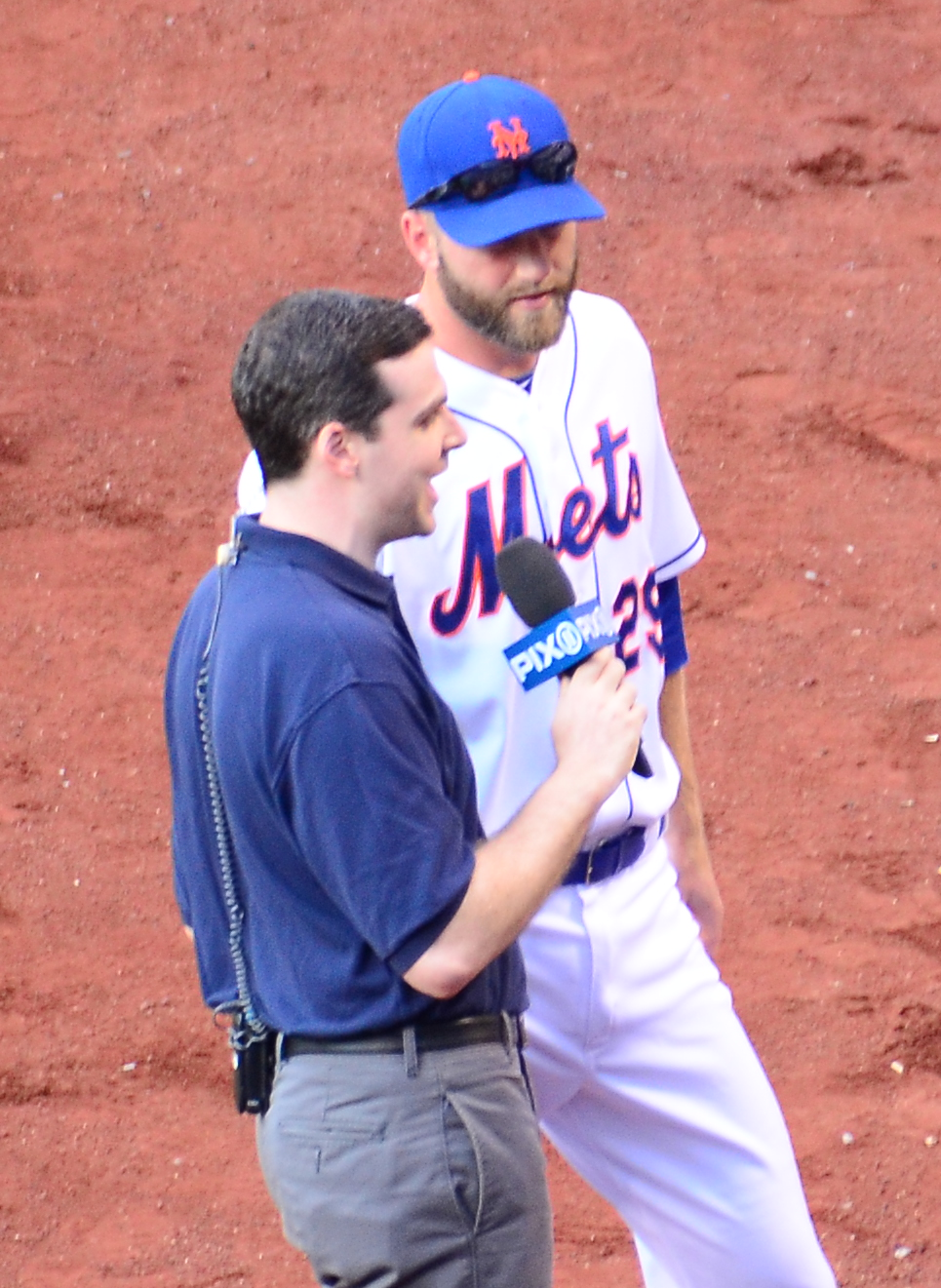 Steve Gelbs interviews New York Mets left fielder Eric Campbell after Campbell's hit in the 8th inning resulted in a Mets win, July 12, 2014.